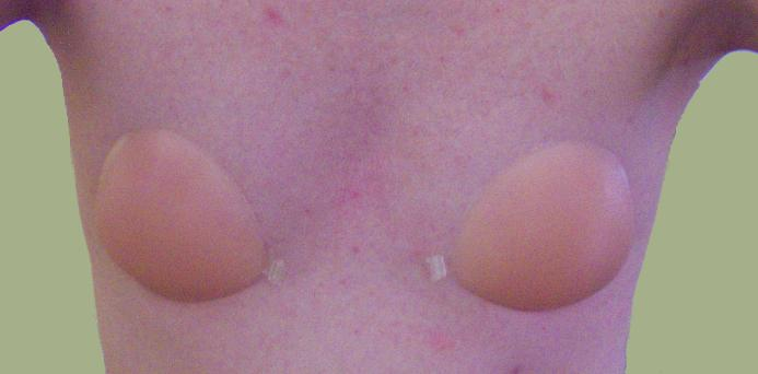 Using a gel bra to create cleavage, step one, applying cups.